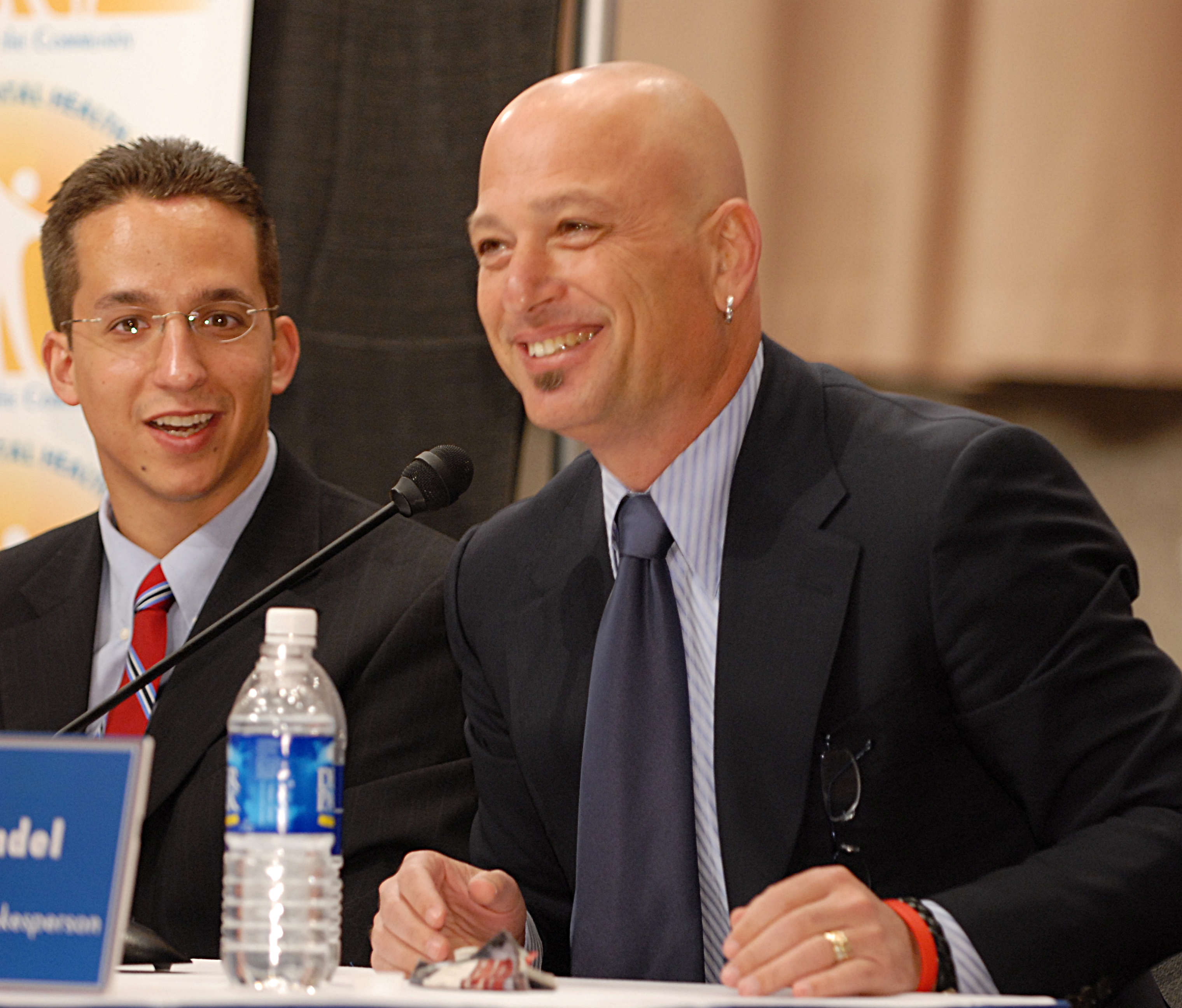 Photos taken at the 2007 National Children's Mental Health Awareness Day celebration in Washington, D.C. For more information on National Children's Mental Health Awareness Day, visit